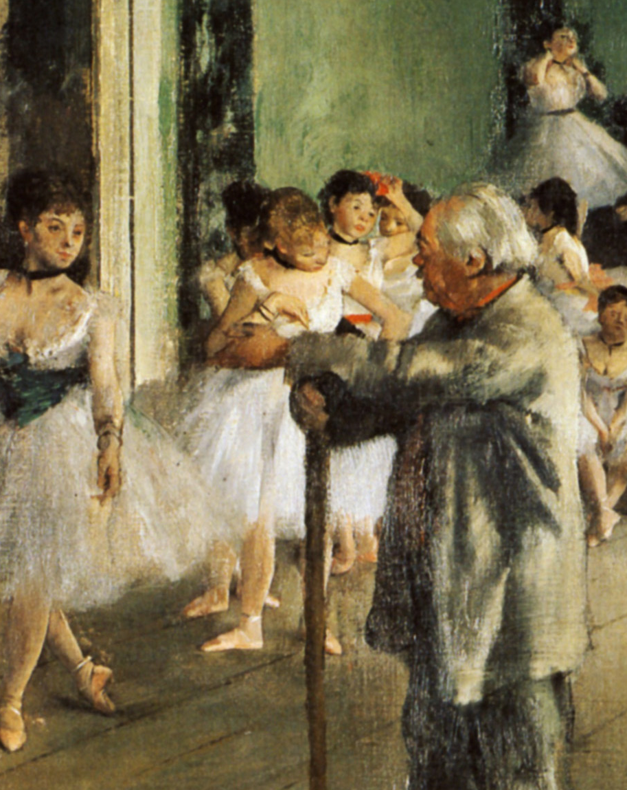 La Classe de danse, Degas, detail n. 2